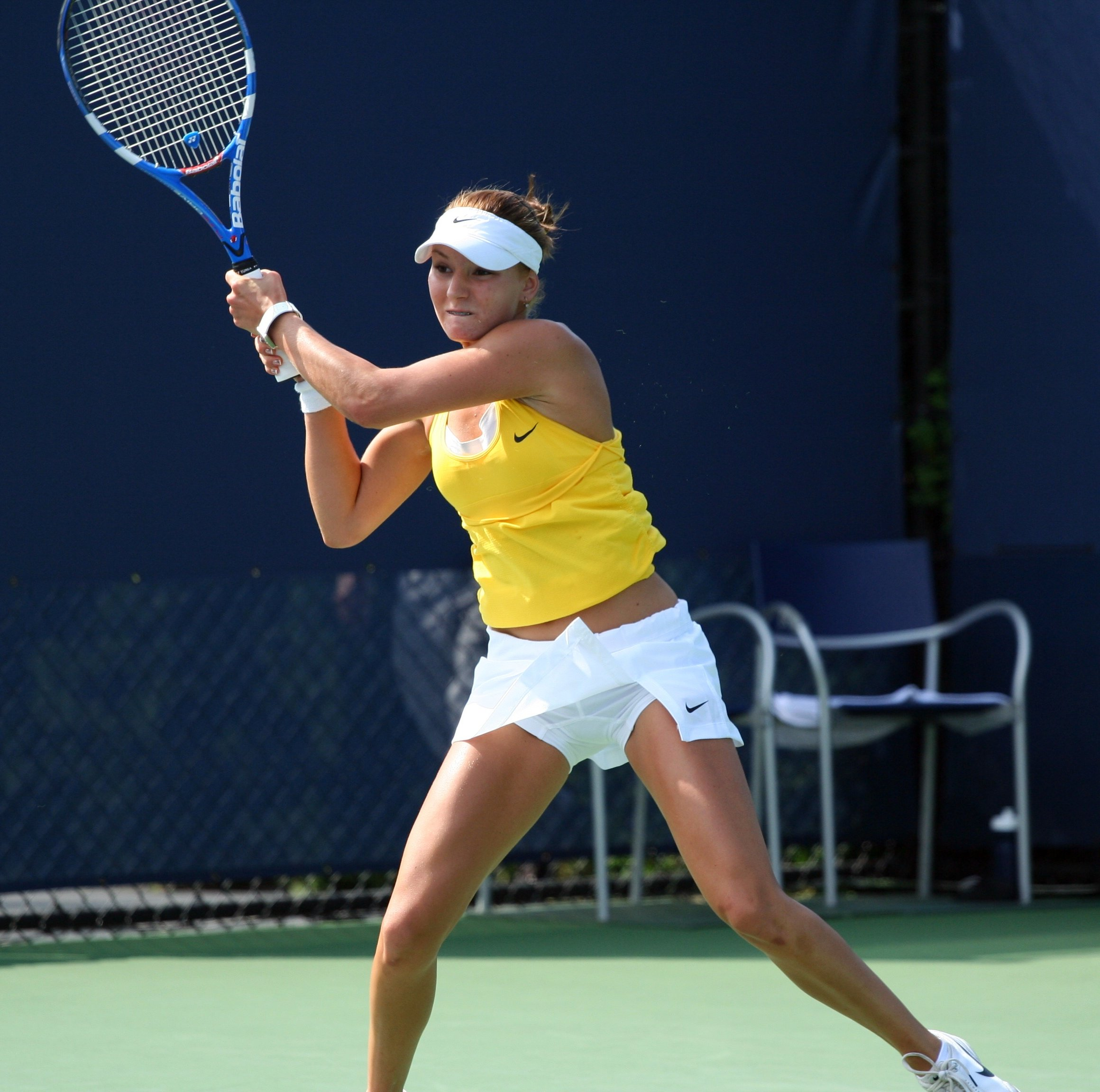 Silvia Njiric at the 2009 junior US Open